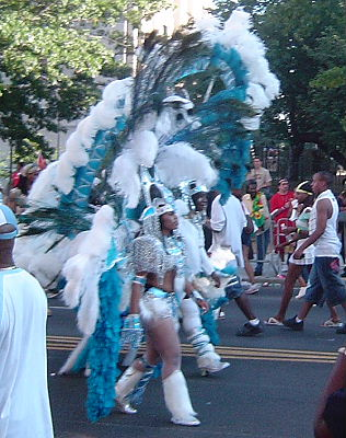 Woman in full costume( sesame flyers) at the West Indian Day Parade, photographed by me, User:Fordmadoxfraud